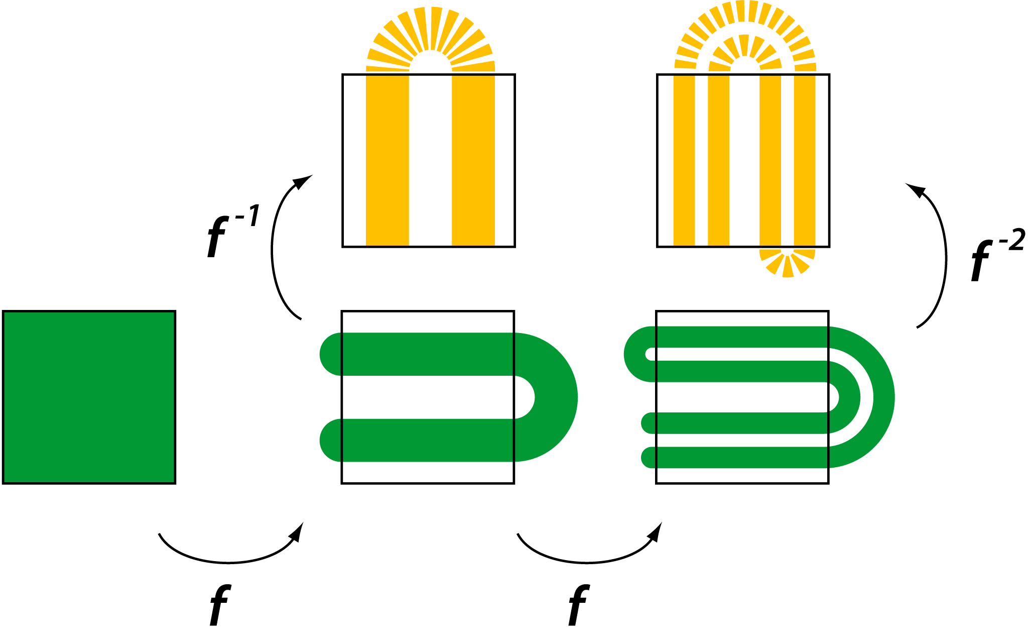 Pre-images of the areas from the square domain of the horseshoe that remain in the square. Produced with Postscript and Illustrator Notes The square on the left gets mapped by the Smale Horseshoe map to the green region. Successive iterations will fold the original square even more. Only part of the original square gets mapped back into the square. The solid orange part indicates the points in the square that get mapped back into the square by one iteration (for the left square) or two iterations (for the right square). The original points of the square also get oriented in different directions. The dashed regions in orange indicate how to continue the orientation of the orange strips. No points in the dashed orange region participate in the dynamics of the horseshoe.